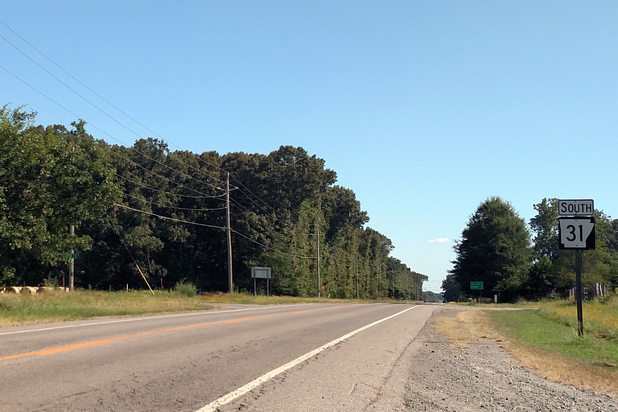 Highway 31 north of Lonoke, AR at Highway 236 intersection